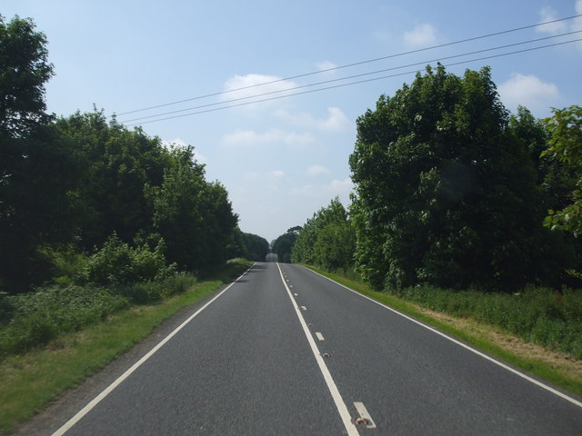 The B6403 Rolling road